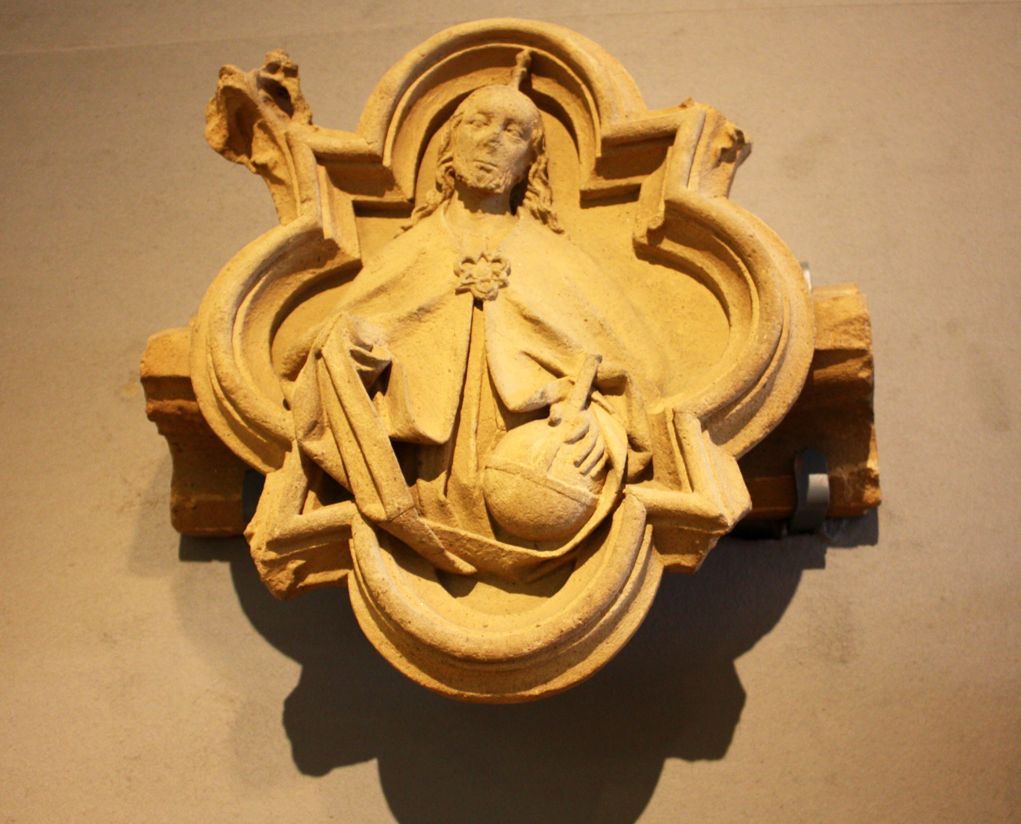 Cologne, ruins of the gothic Hardenrath house in former times